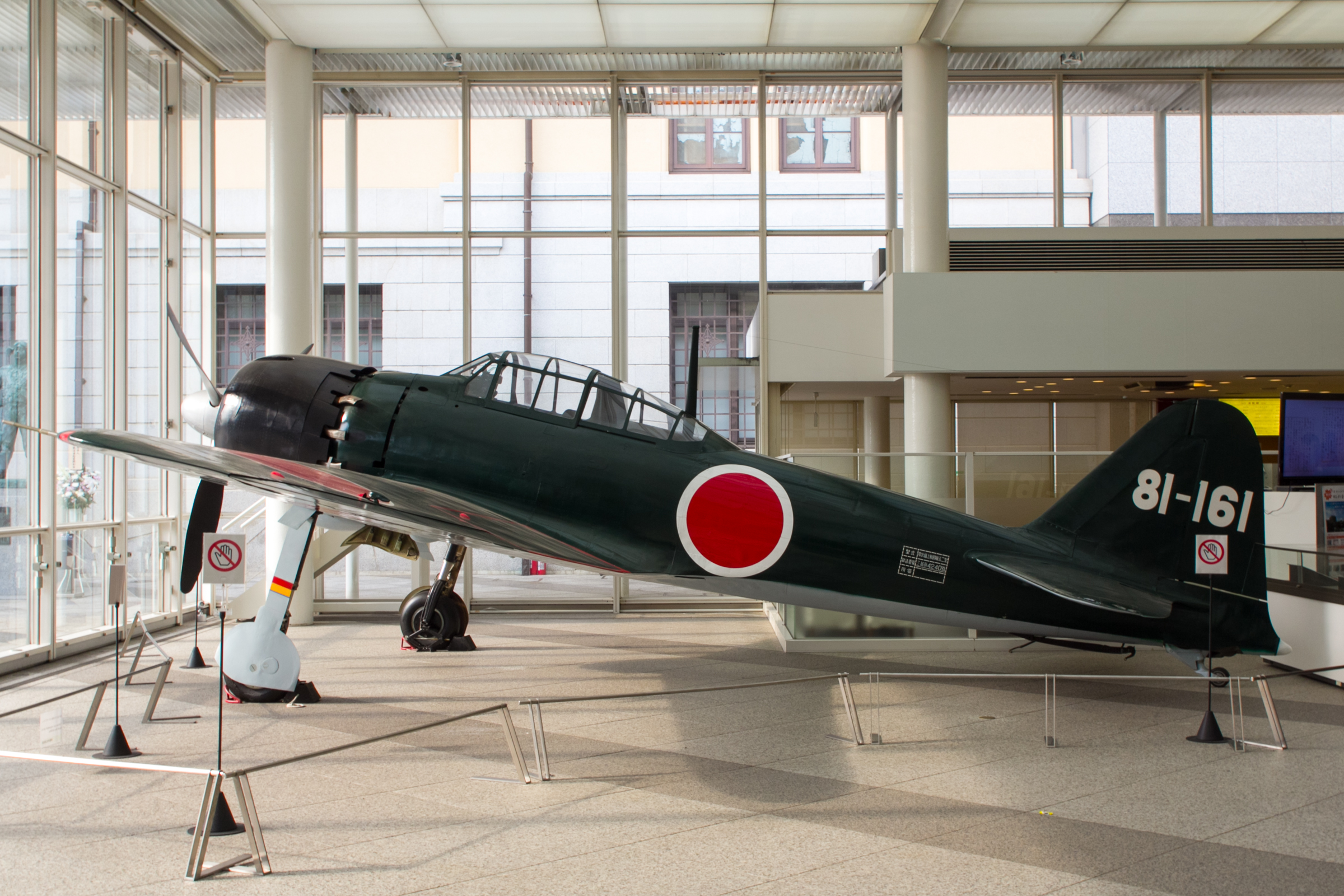 Mitsubishi A6M5 in the Yushukan, Tokyo